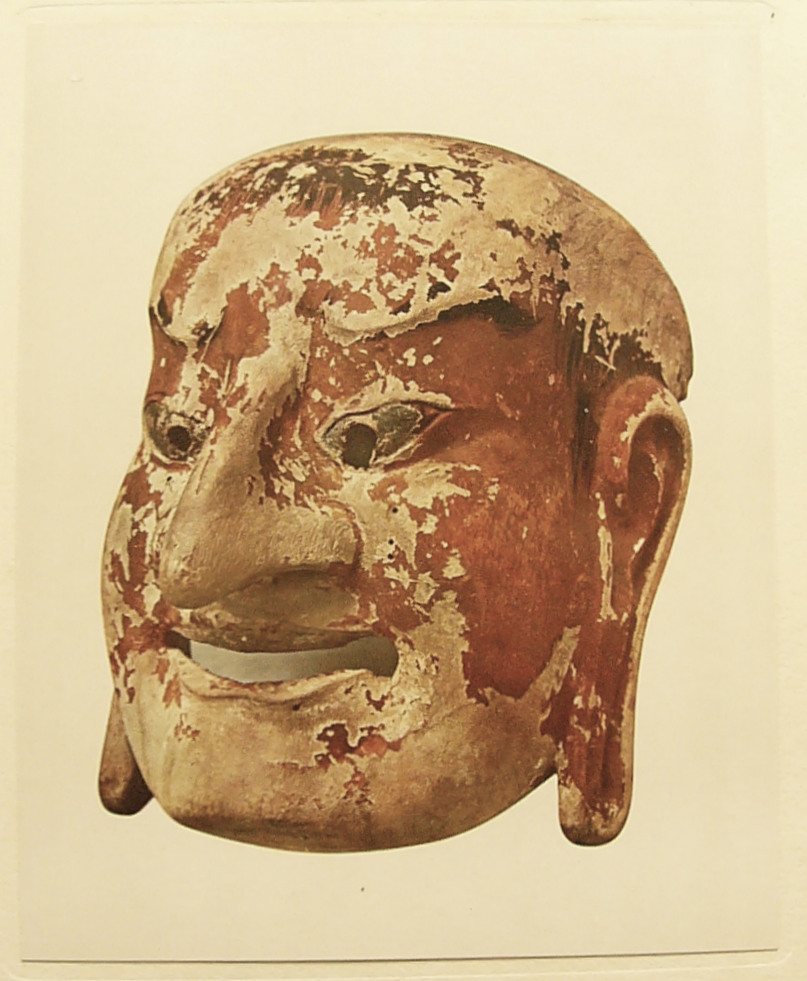 Gigaku mask Suikoju CamphorWood, Colored, 28.4ｘ22.1cm Horuji222,Tokyo National Museum, former Horuji-Temple